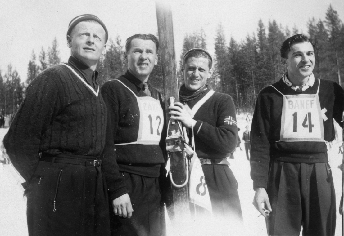 Ski jumpers in the US, all originally from Kongsberg, Norway. From the left: Tormod (Tom) Mobraaten (Norwegian-Canadian), Olav Ulland (Norwegian-American), Petter Hugsted, Kjell Stordalen.